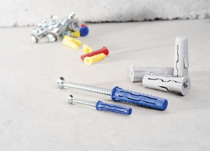 Rawlplug wall plugs